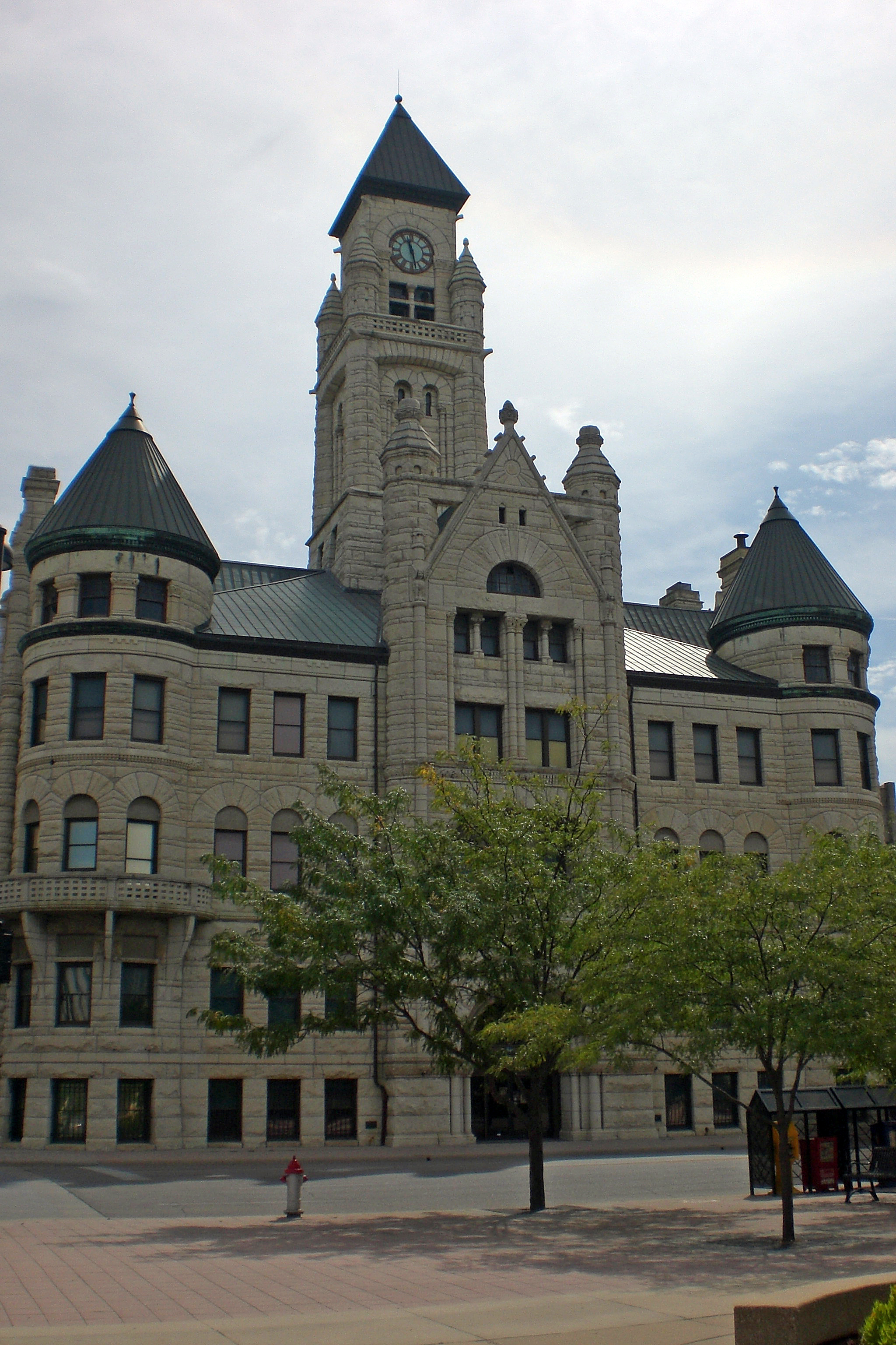 Wichita-Sedgwick County Historical Museum, once Wichita's city hall, today listed on the National Register of Historic Places.